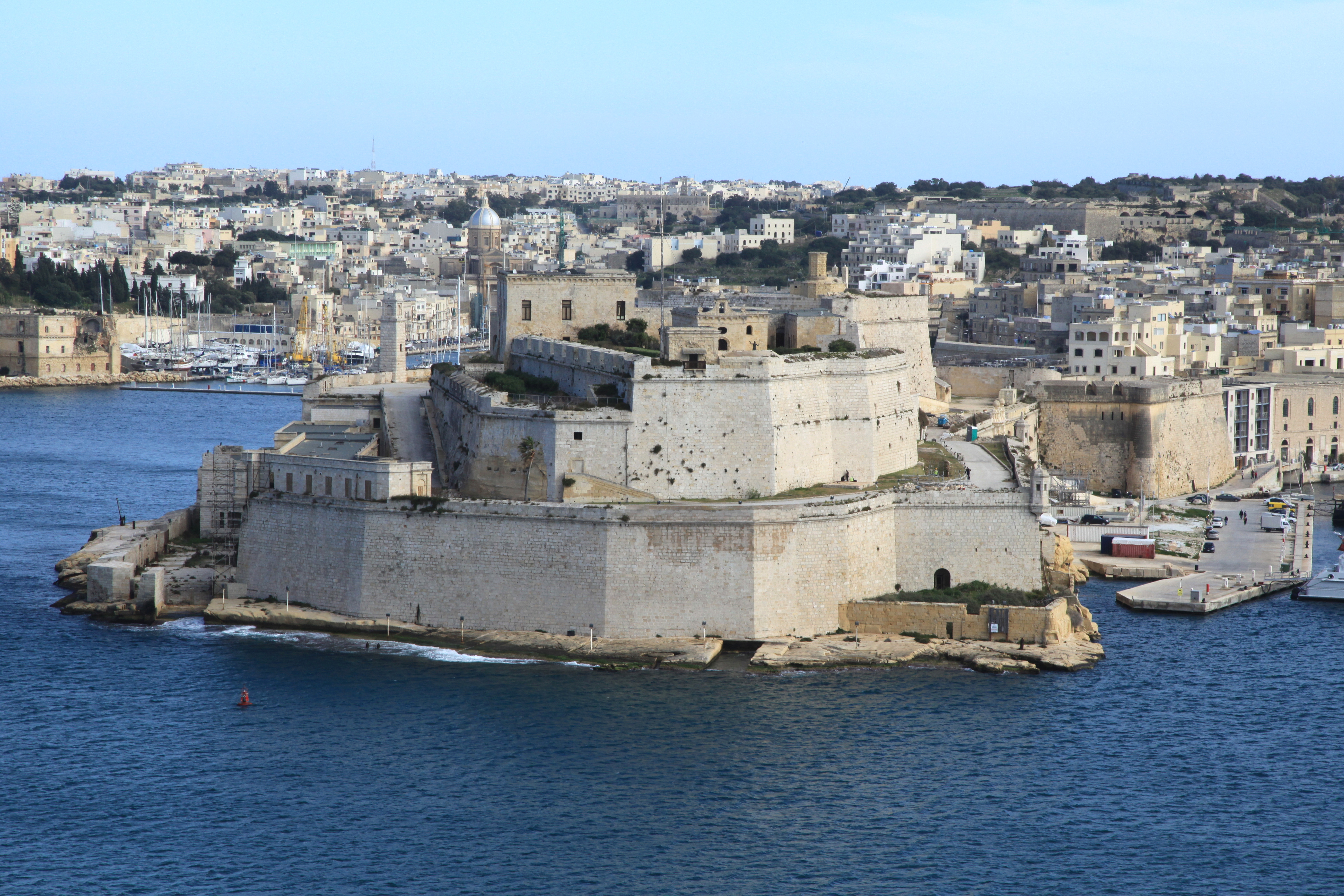 View from the Upper Barrakka Gardens in Valletta to Fort St. Angelo in Birgu